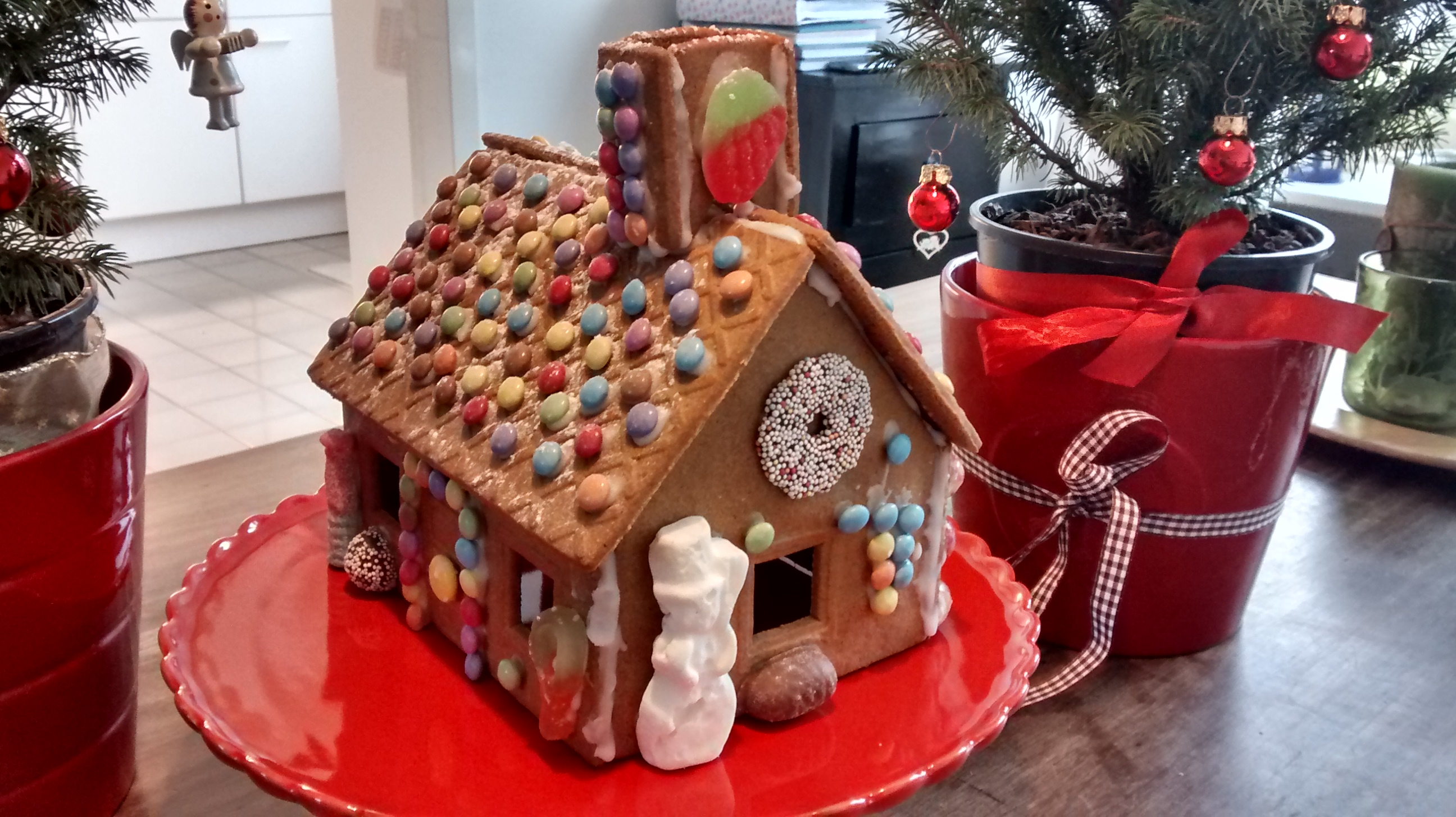 Pepparkakshus from and made in the Netherlands from an IKEA construction set.